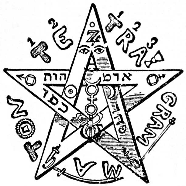 Eliphas Levi's Pentagram, figure of the microcosm, the magical formula of Man.